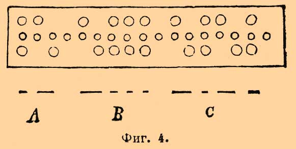 Illustration from Brockhaus and Efron Encyclopedic Dictionary(1890—1907)